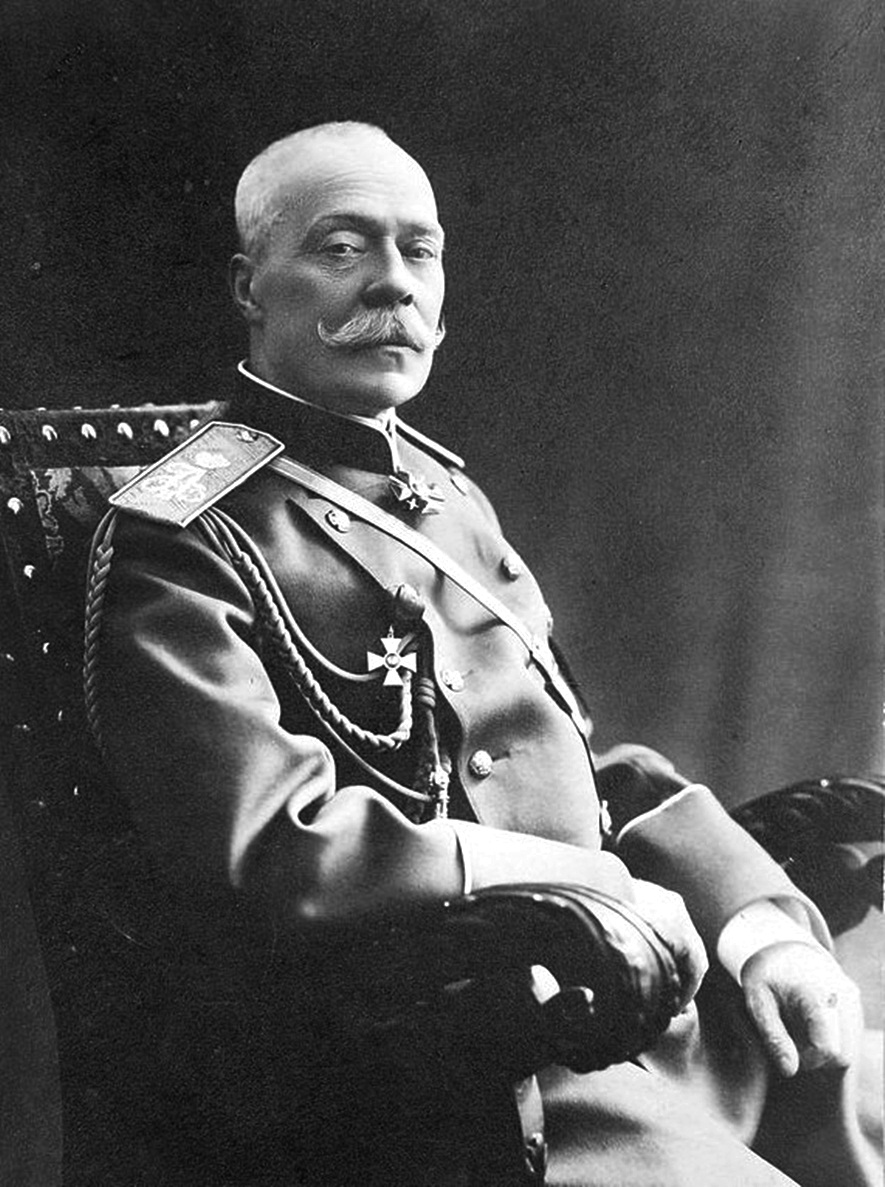 Oldenburgsky Alexander Petrovich (Alexander Fridrih Konstantin), prince (21.06.1844, St.Petersburg - 06.09.1932, Biarritz, France), the general-aide-de-camp (1880, the great-grandson of Emperor Paul I. 14.5.1896 is appointed by a member of the State advice 02.03.1914 - the senator. In 1914 has acquired the right to use a title of Its Imperial Highnes. Conducted extensive scientifically-educational activity, has played a leading role in progress of a medical science, healthcare and resorts of Russia. A photographer's studio "H.Rentz and F.Schrader" St.-Petersburg, Morskaya str., 27